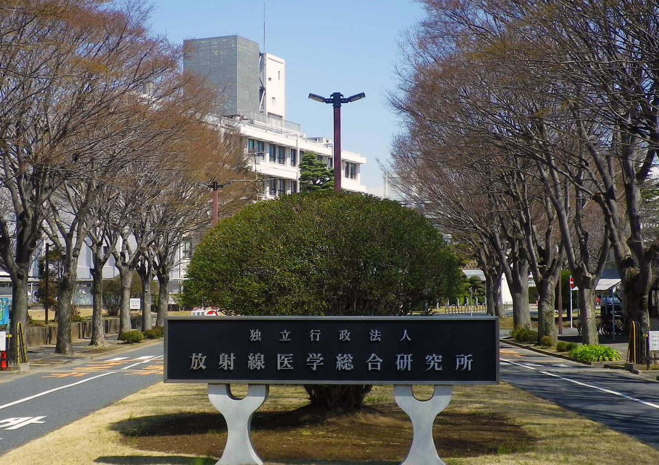 National Institute of Radiological Sciences